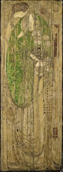 Gesso panel created for the Salon de Luxe, at Miss Cranston's Willow Tea Rooms by Margaret MacDonald